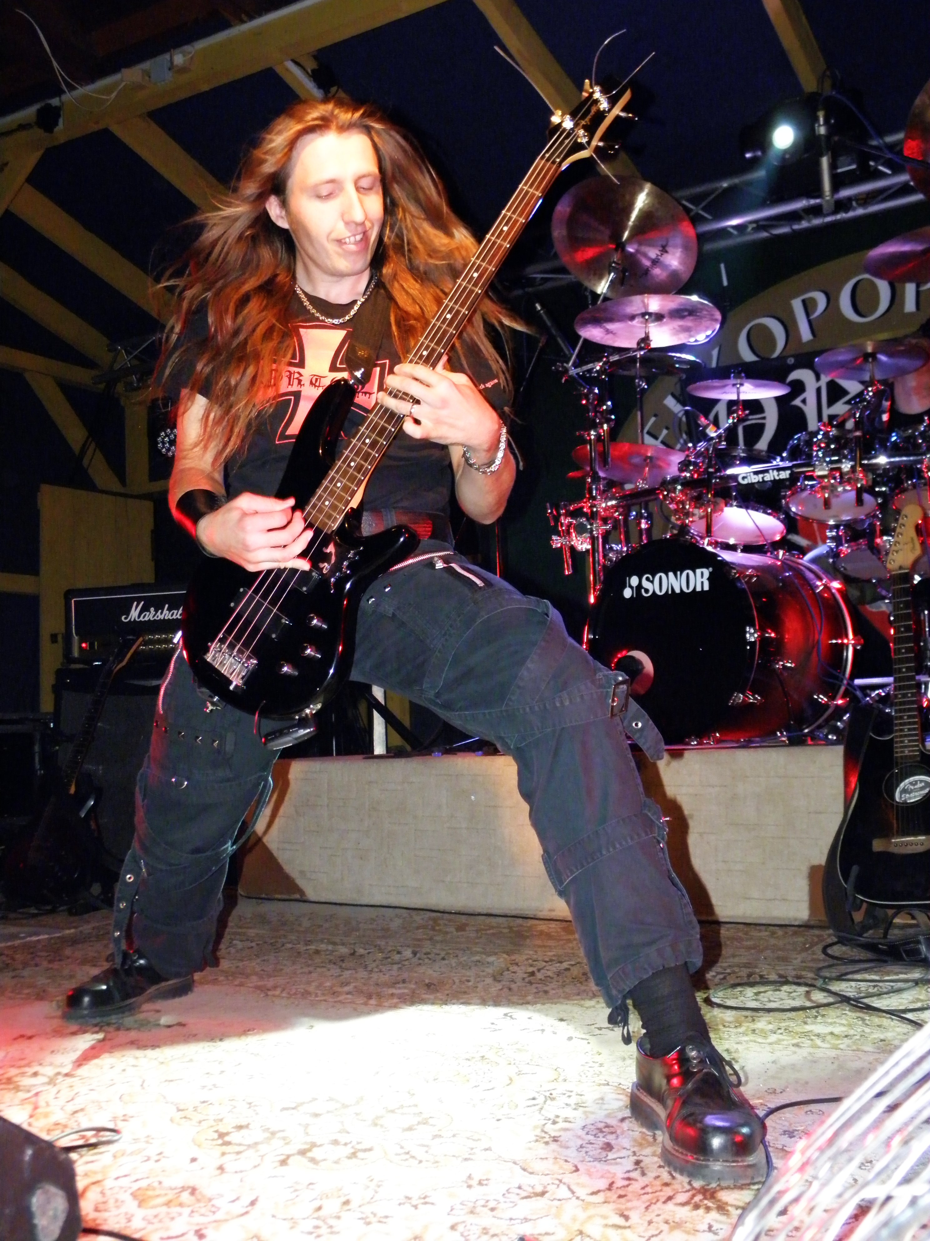 Czech music group Ortel, concert in Runway Club near Hradec Kralove.